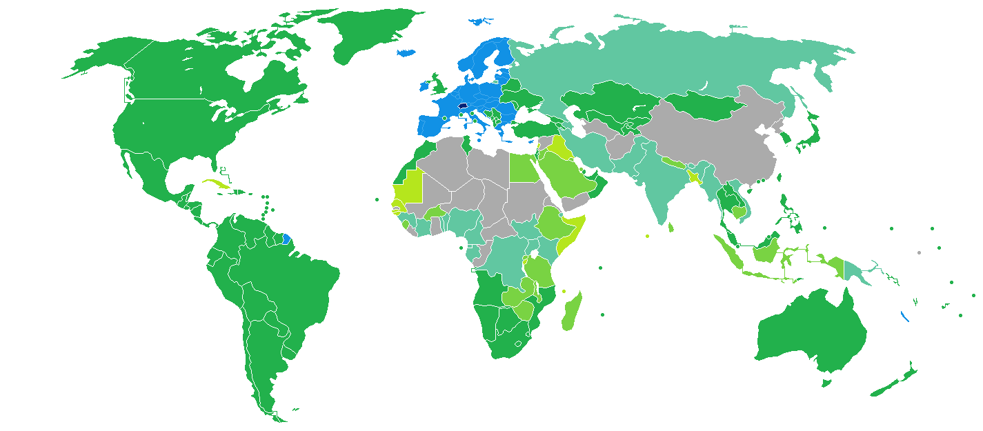 Visa requirements for holders of regular Swiss passports Switzerland Freedom of movement Visa free access Visa on arrival Electronic visa Visa may be obtained online or on arrival